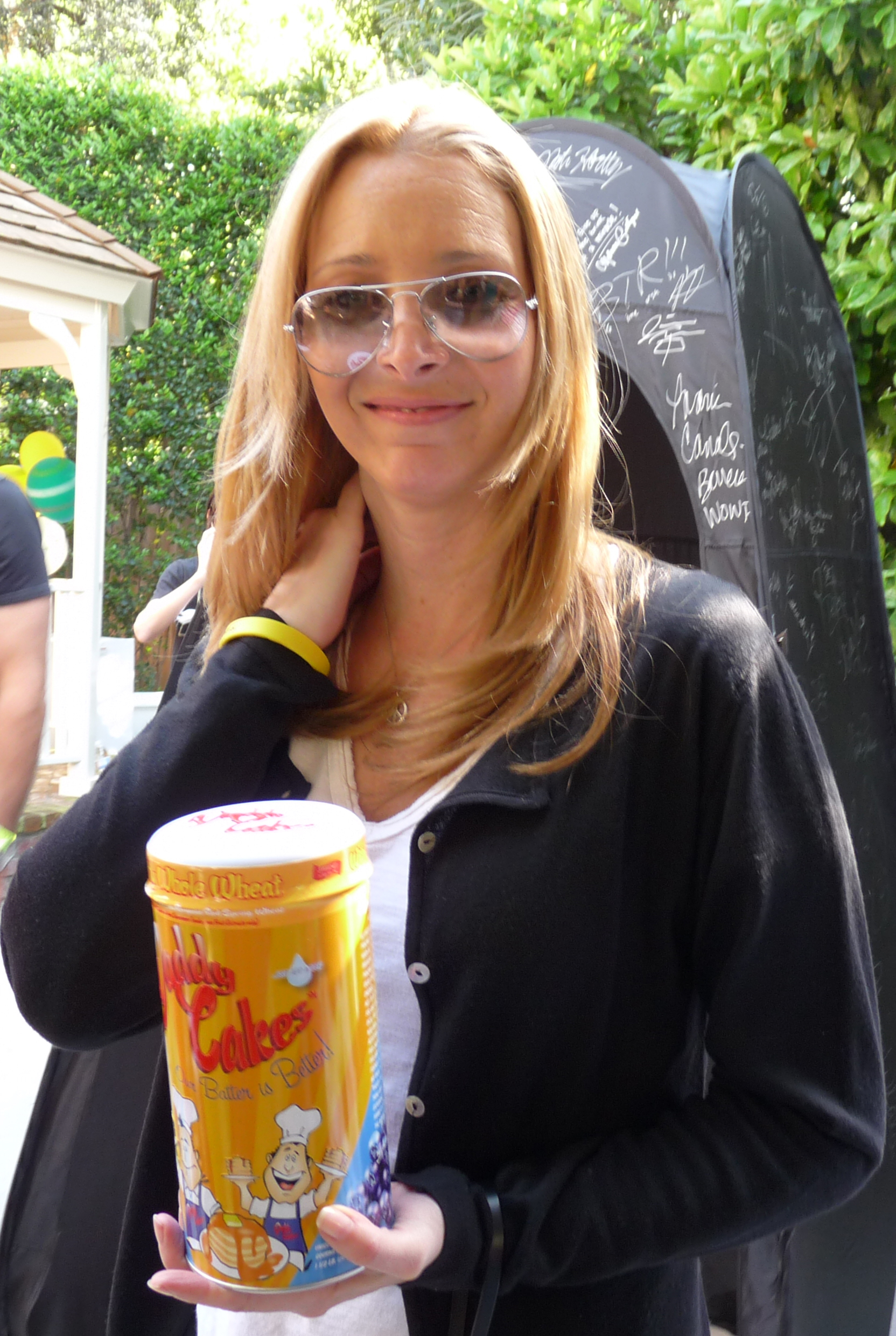 "Lisa Kudrow holding Daddy Cakes(R)"